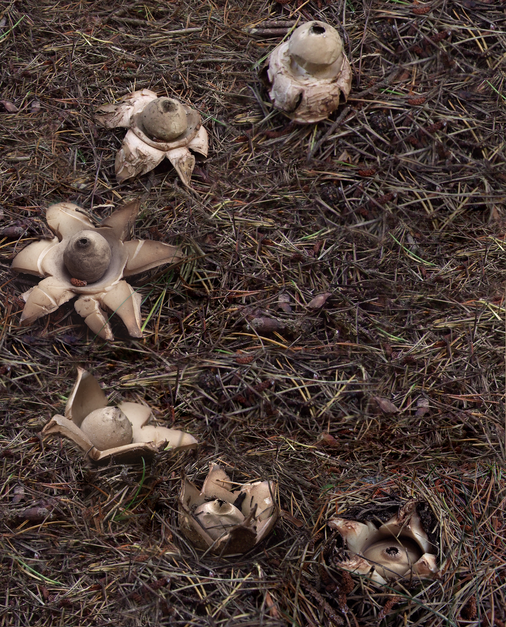 A composited photographic image showing the stages of emergence of the fruiting bodies of the collared earth star fungus Geastrum triplex